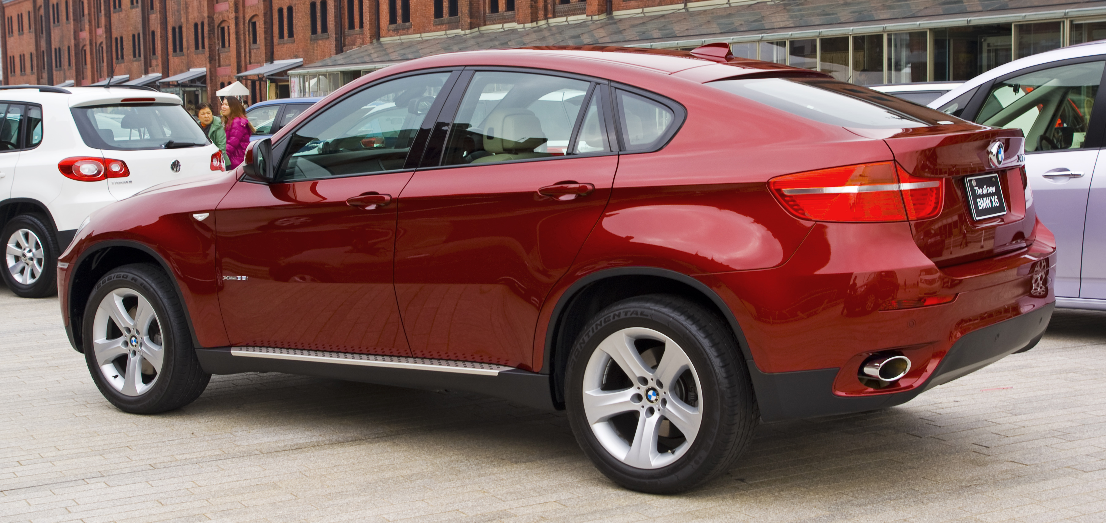 BMW E71 X6 xDrive35i photographed in Yokohama Red Brick Warehouse